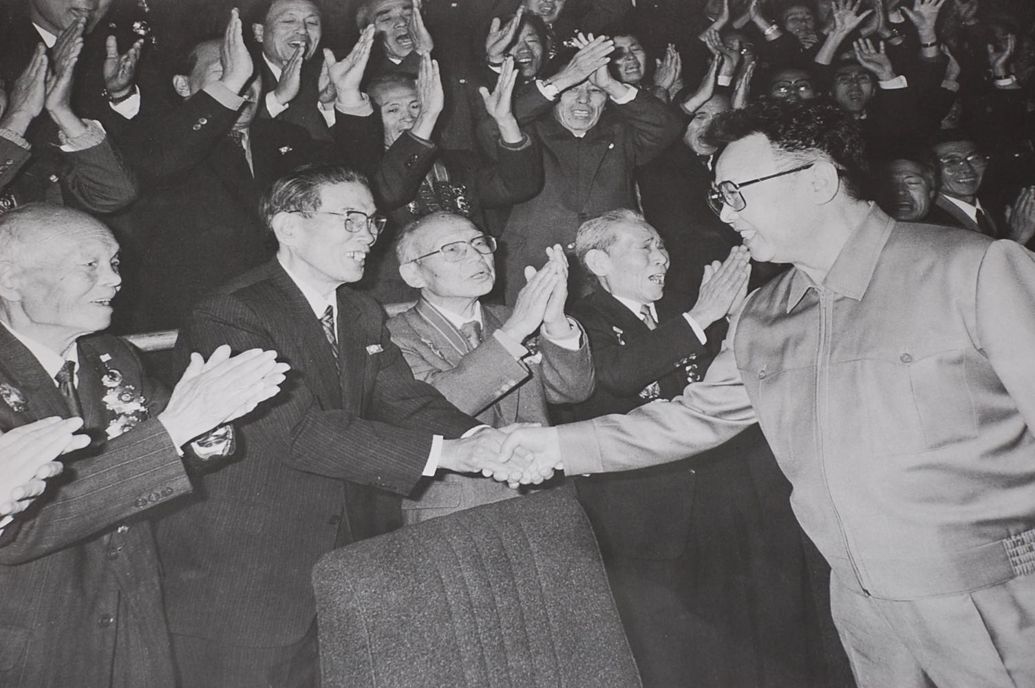 Grand People's Study House. Pyongyang, North Korea.